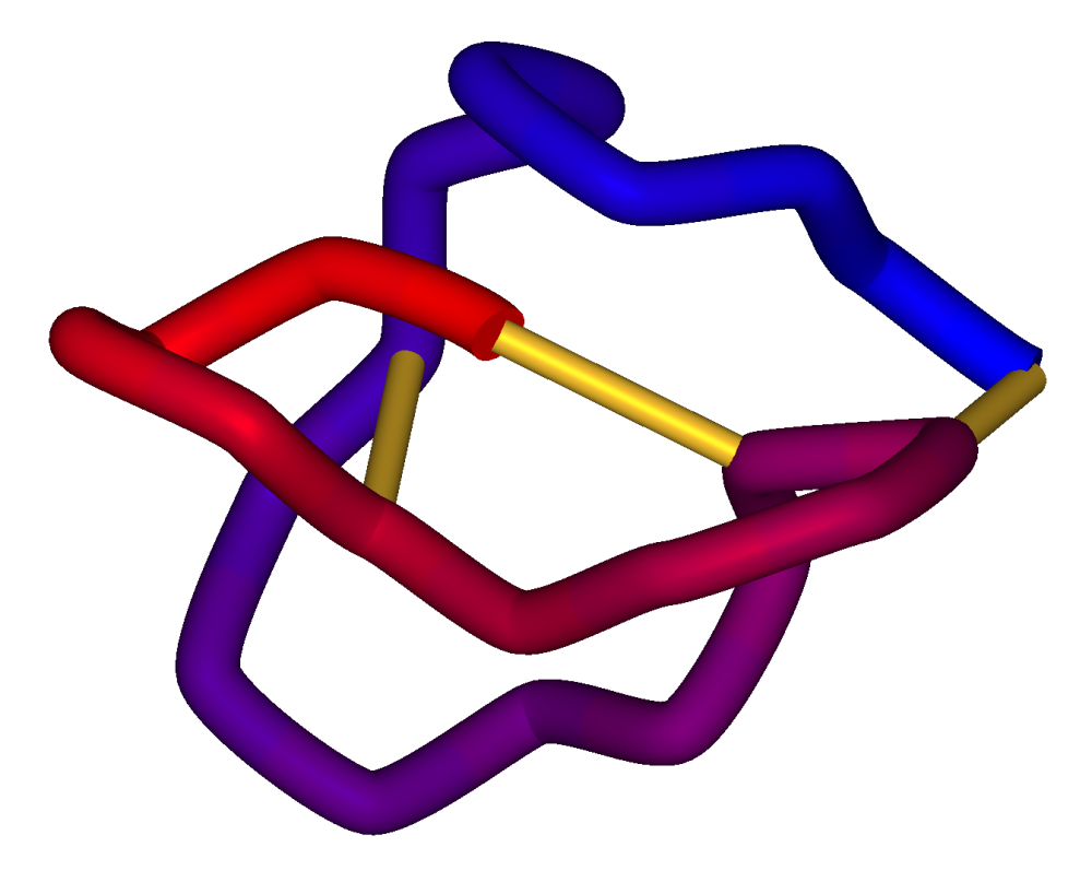 Schematic representation of the three-dimensional structure of ω-conotoxin MVIIA (ziconotide), colored from N-terminal end (red) to C-terminal end (blue). Disulfide bonds are shown in gold. Created using Accelrys DS Visualizer Pro 1.6 and GIMP. Legend Disulfide bonds